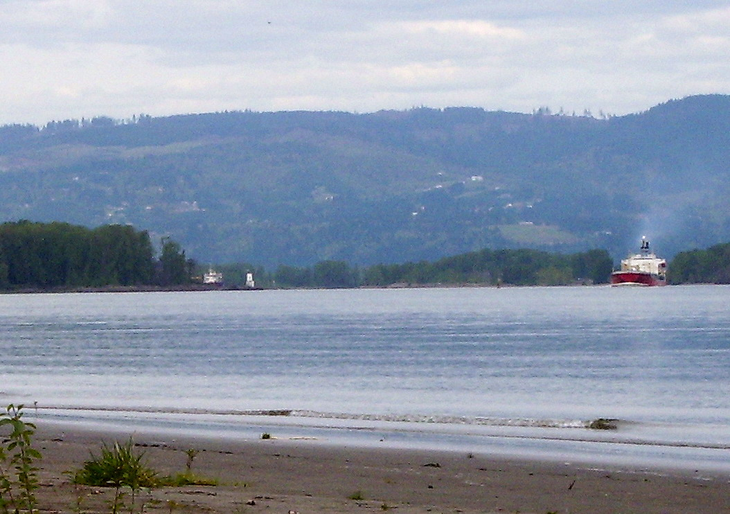 Distant view of Warrior Rock Light as seen today. Two cargo ships are in range.